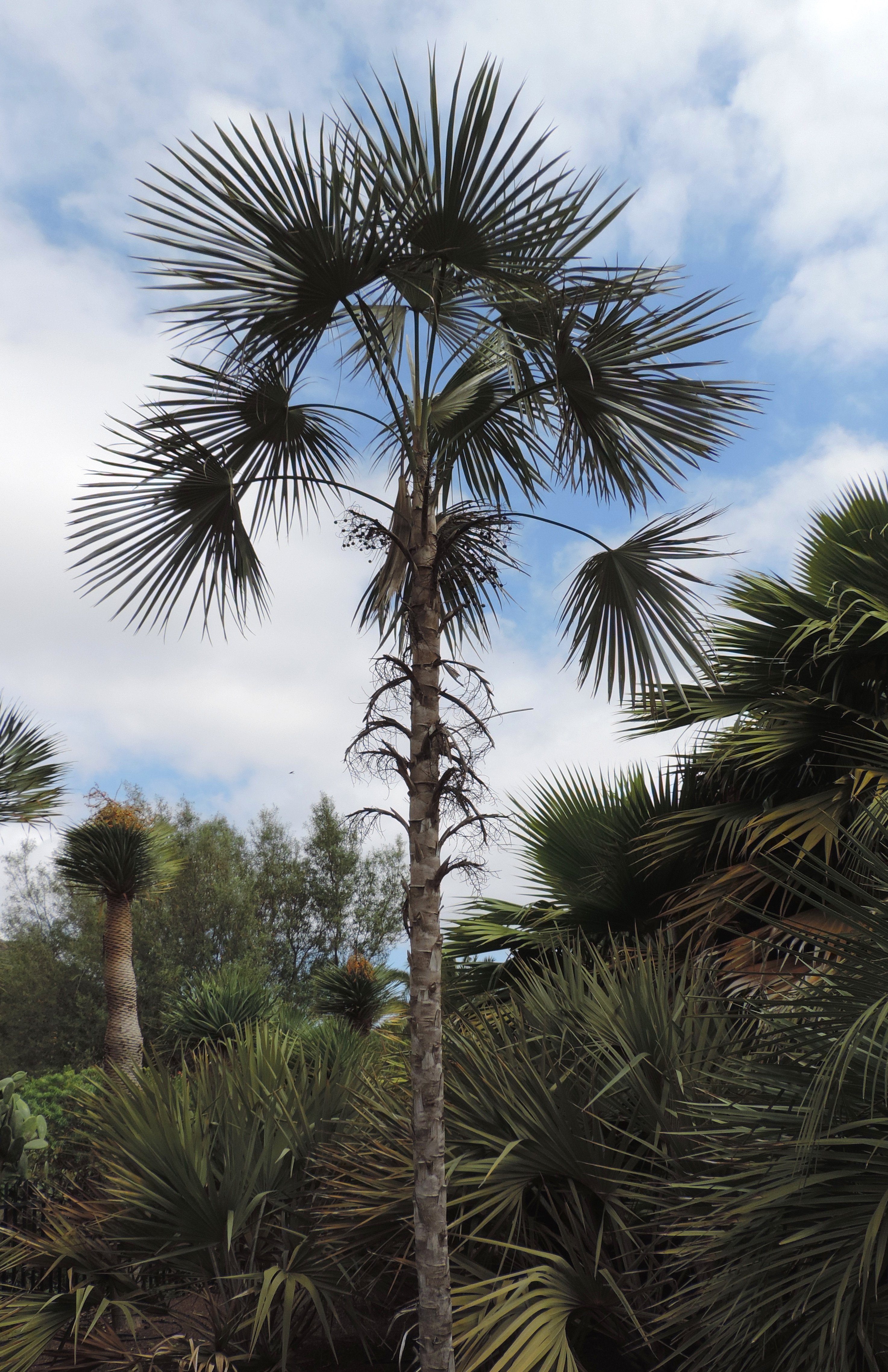 Coccothrinax alta in Jardín Botánico Canario Viera y Clavijo, Gran Canaria